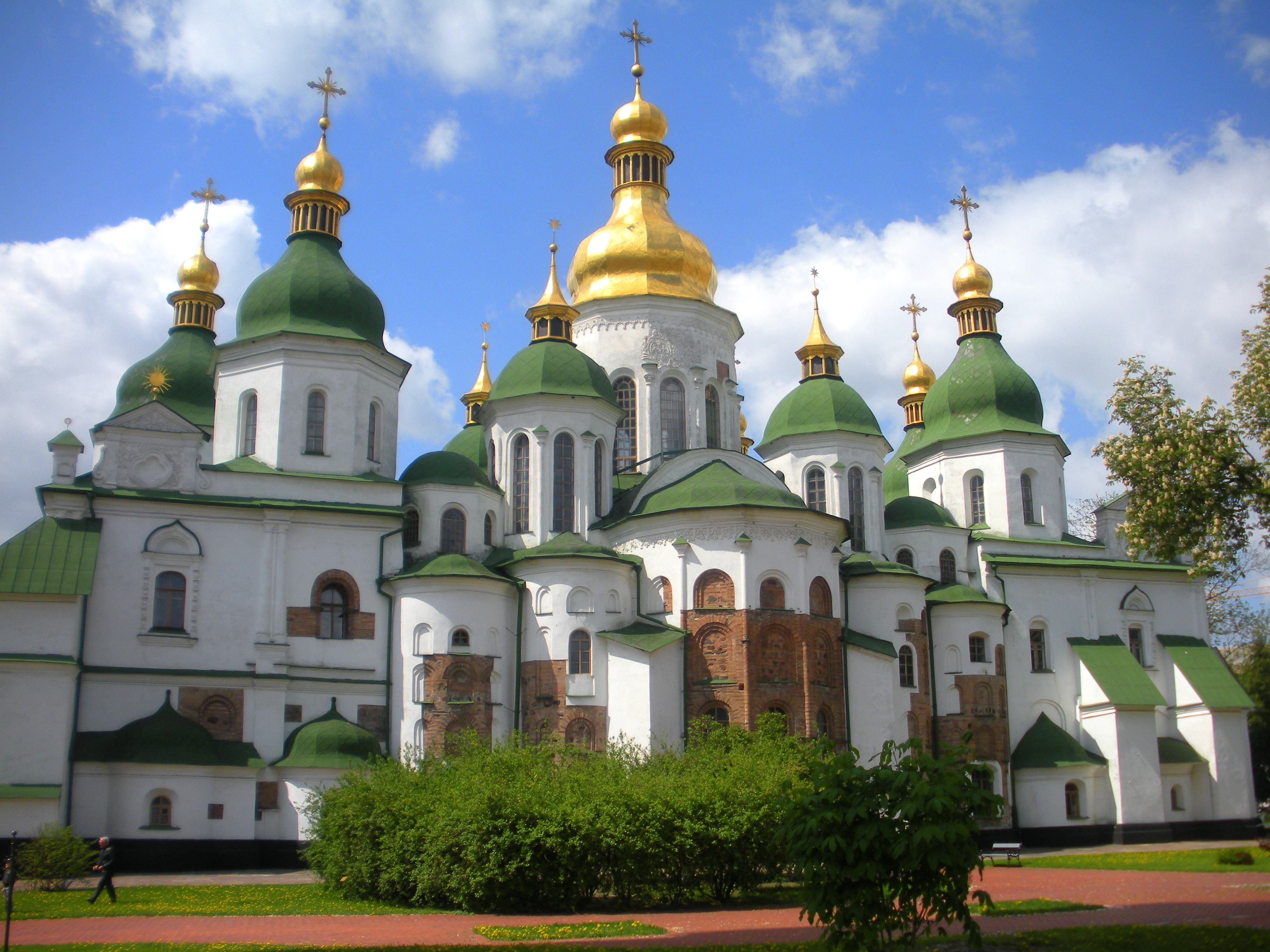 St. Sophia's Church in Kiev, Kiev.